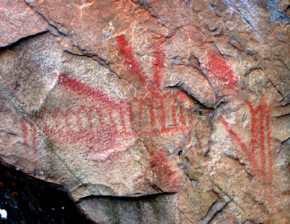 Pictographs on Mazinaw Rock, Upper Mazinaw Lake, Bon Echo Provincial Park, Ontario